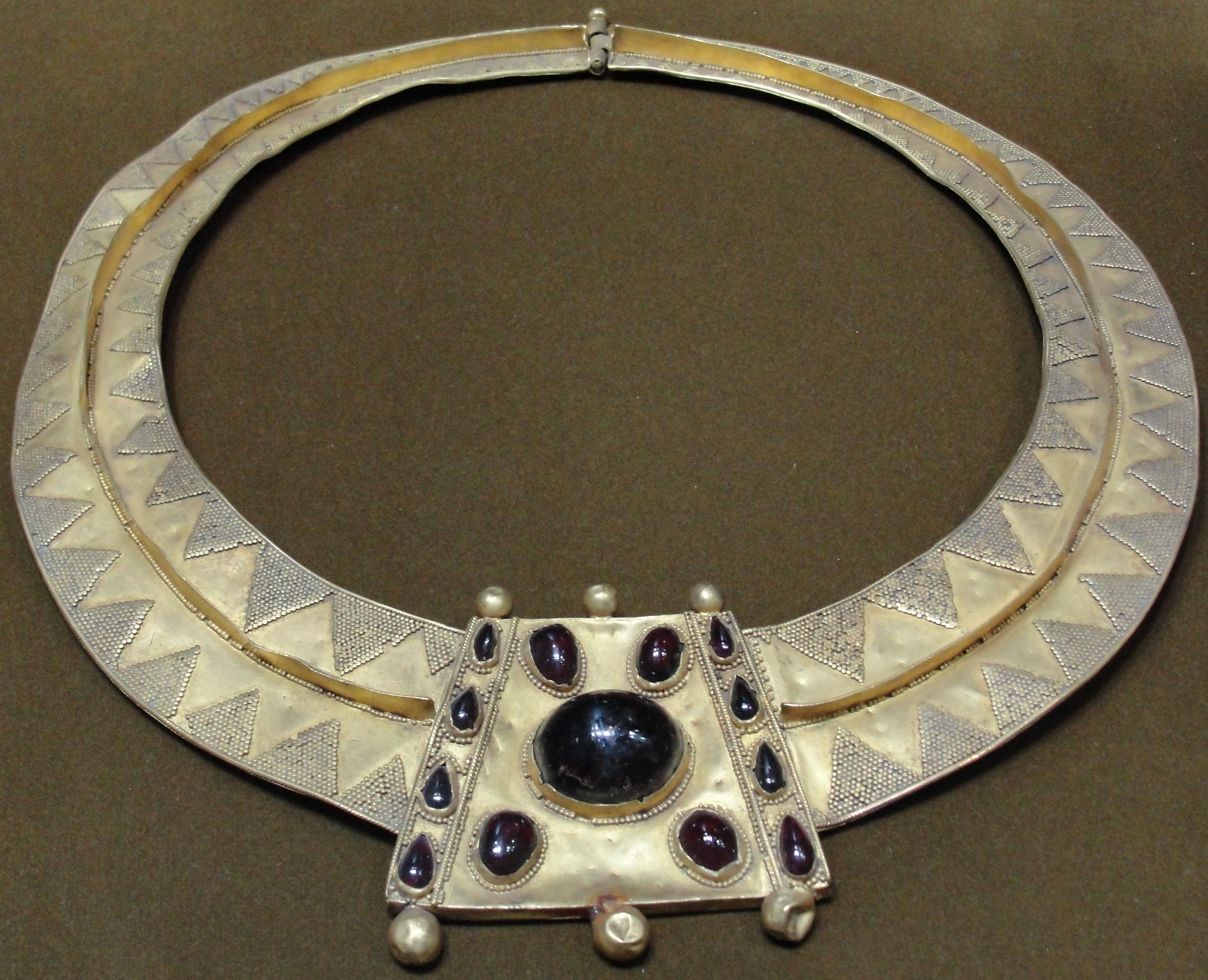 Golden Necklace - Parthian Empire 2nd century A.D.